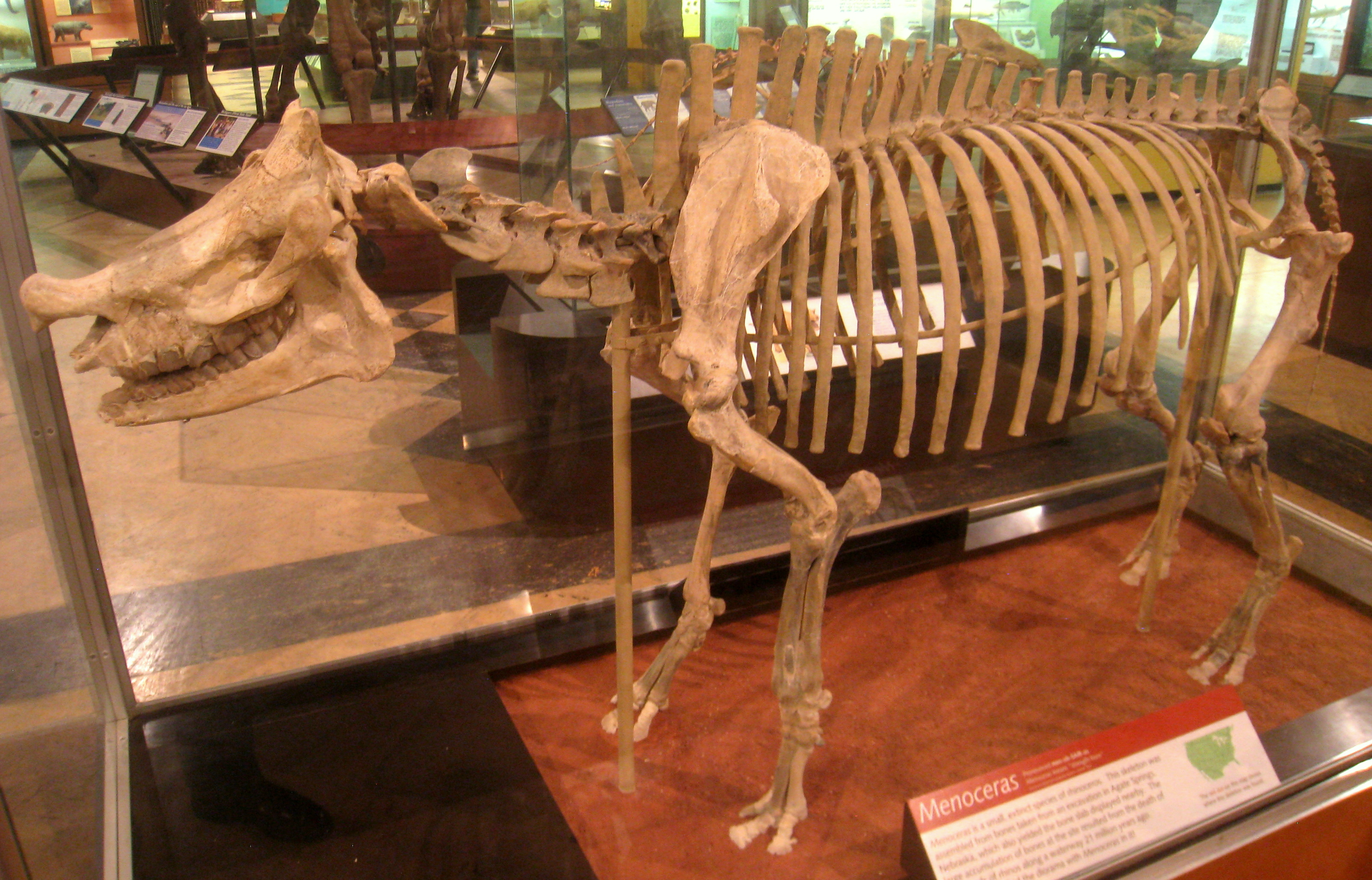 Menoceras barbouri. Exhibit Museum of Natural History, University of Michigan, 1109 Geddes Avenue, Ann Arbor, Michigan, USA.